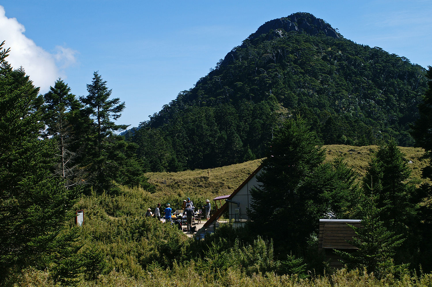 Chi You Mountain, Taiwan. Trees in foreground are Abies kawakamii.